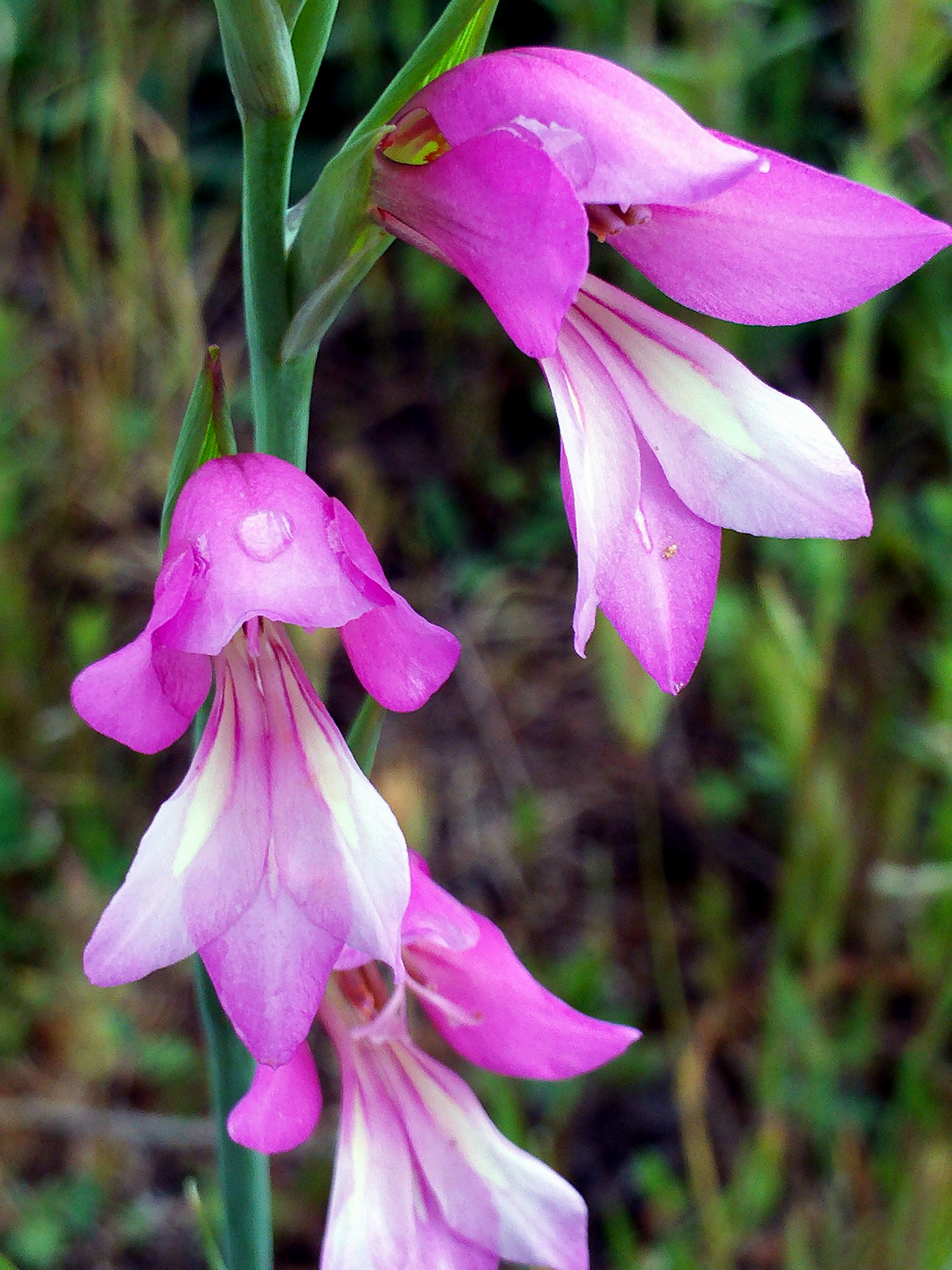 Gladiolus communis flowers close up in Dehesa Boyal de Puertollano, Spain